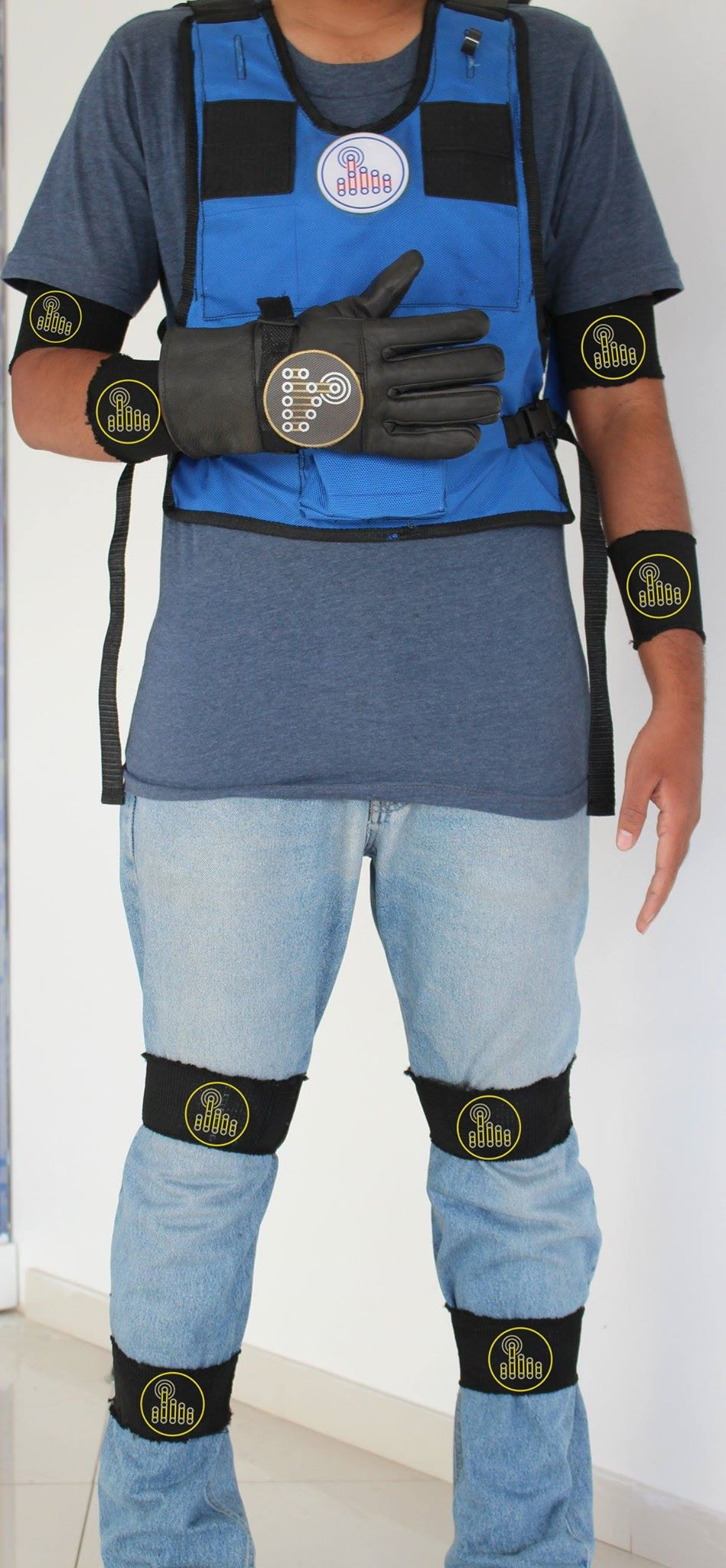 It is a haptic feedback suit with motion capturing and temperature sensation features